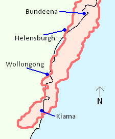 Map of the progress of the en:1999 Sydney hailstorm in its' southern phase. For entire map, see Image:1999SydHail Map.PNG. CC3.0 license.